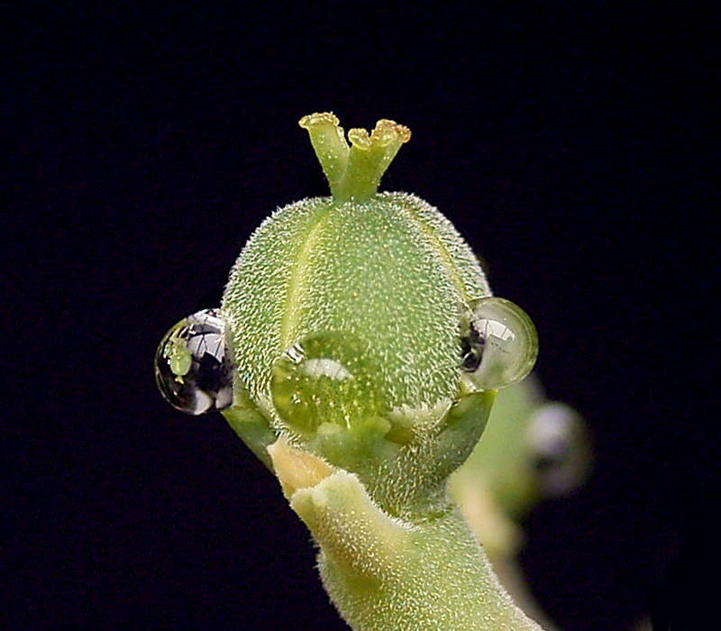 Euphorbia meloformis ssp. valida - Reflection in a drop of nectar